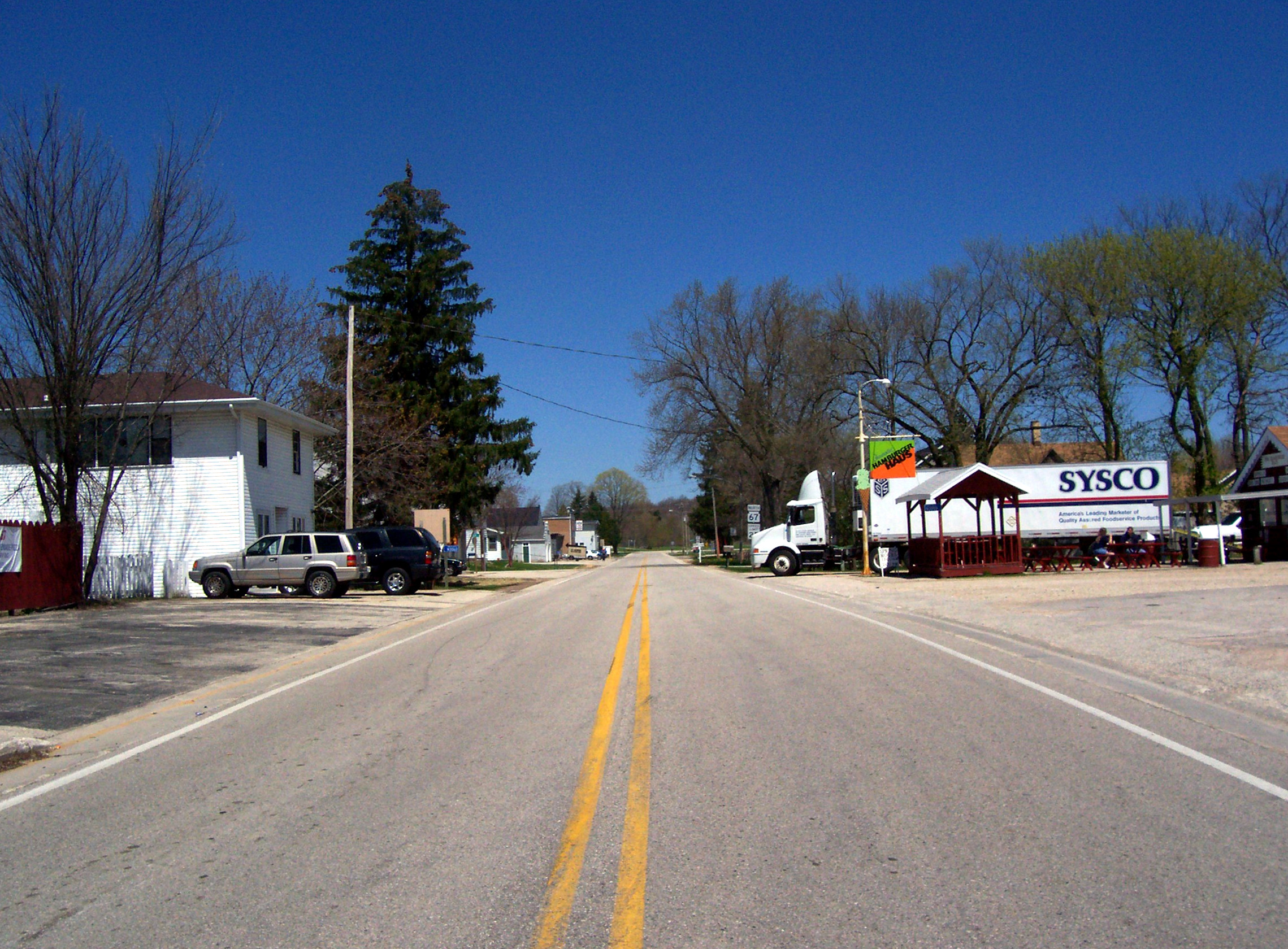 Looking north at downtown Dundee, Wisconsin, USA on Wisconsin Highway 67.